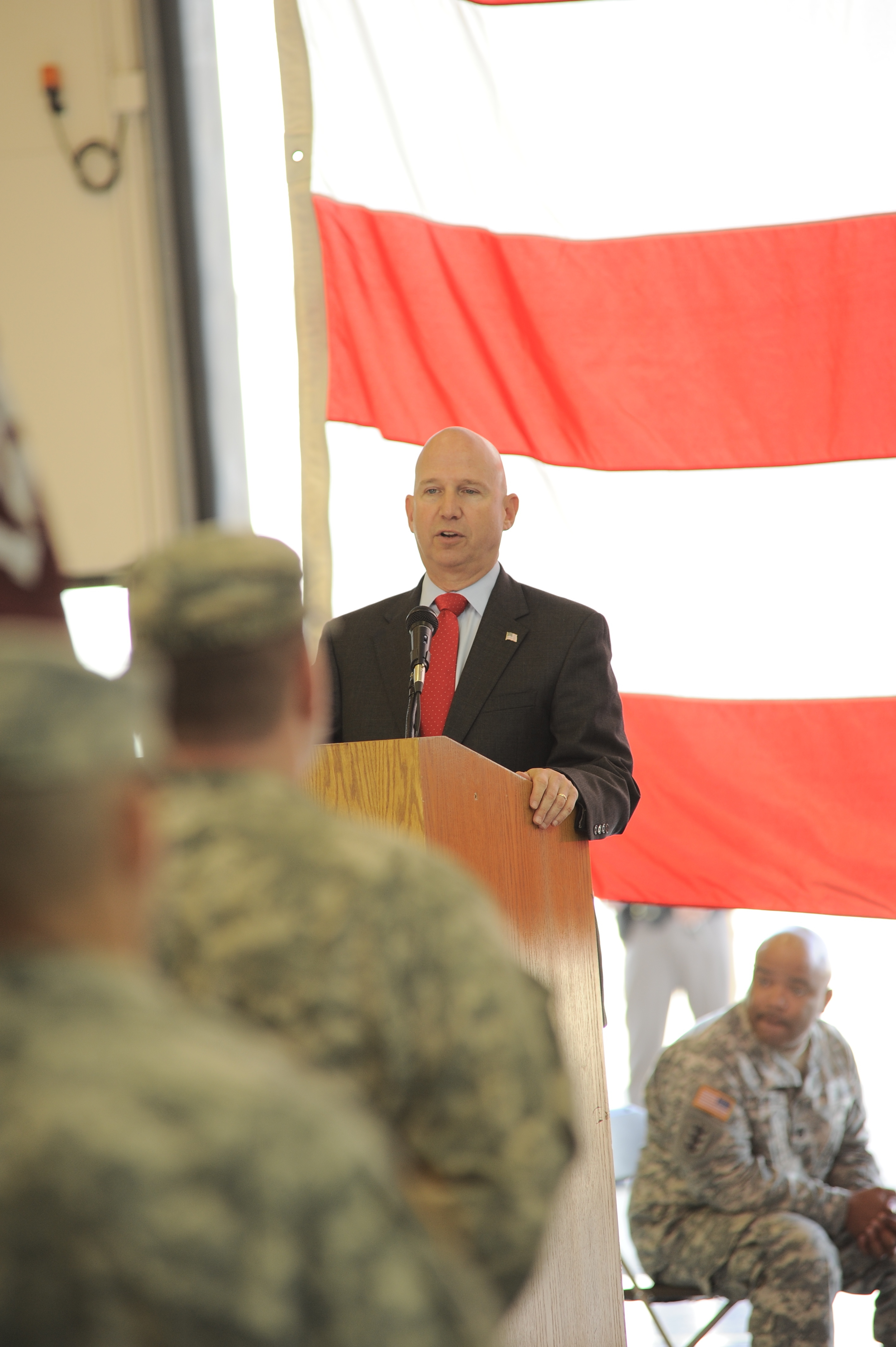 Jack Markell, governor of Delaware, speaks during the welcome home ceremony for Detachment 1, Company F 1/126th Aviation after their deployment in support of Operation Enduring Freedom in New Castle, Del., July 11, 2015. (U.S. Army National Guard photo by Staff Sgt. James Pernol/Released)